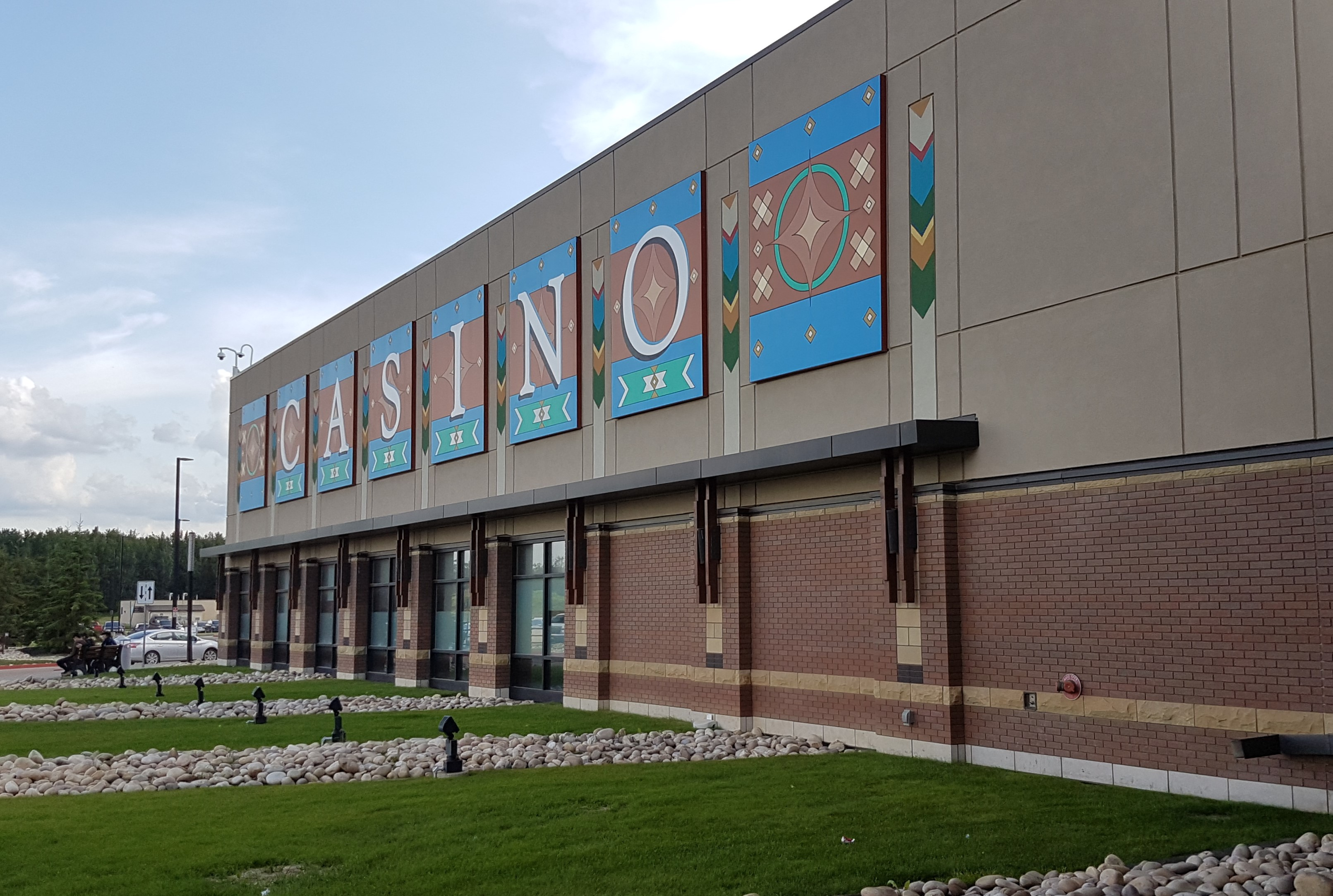 Casino sign on the east side, near the main entrance, of the River Cree Casino, Enoch, Alberta, Canada.